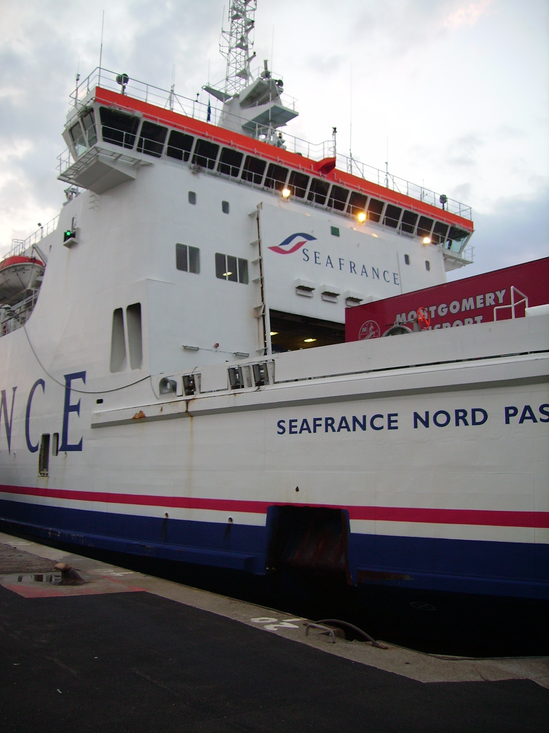 ferry at Calais, France